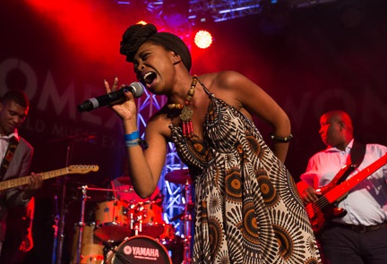 Nomfusi performing in 2013